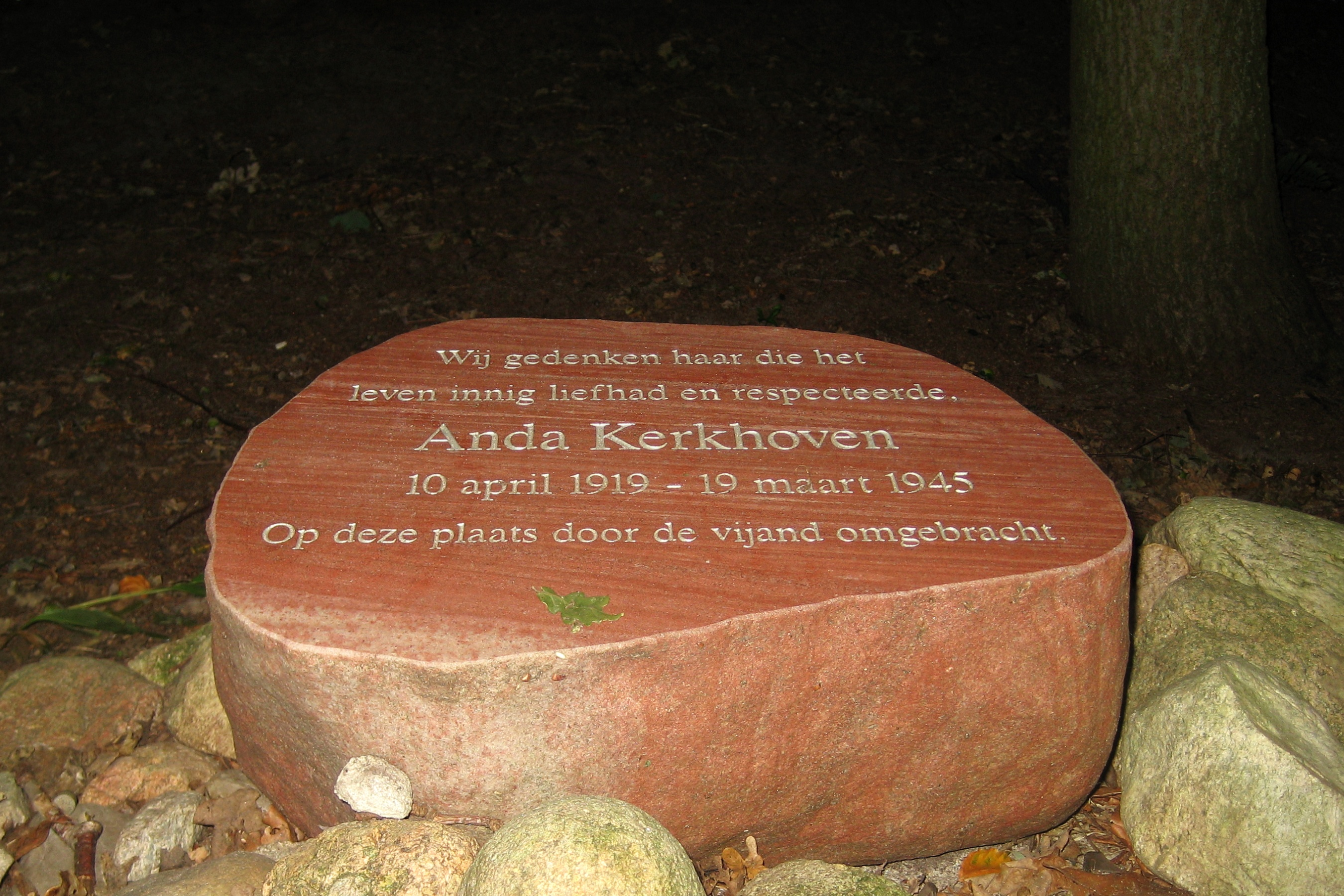 Memorial for the Second World War resistance fighter Anda Kerkhoven (1919-1945) near Glimmen, a village in the Dutch province of Groningen.